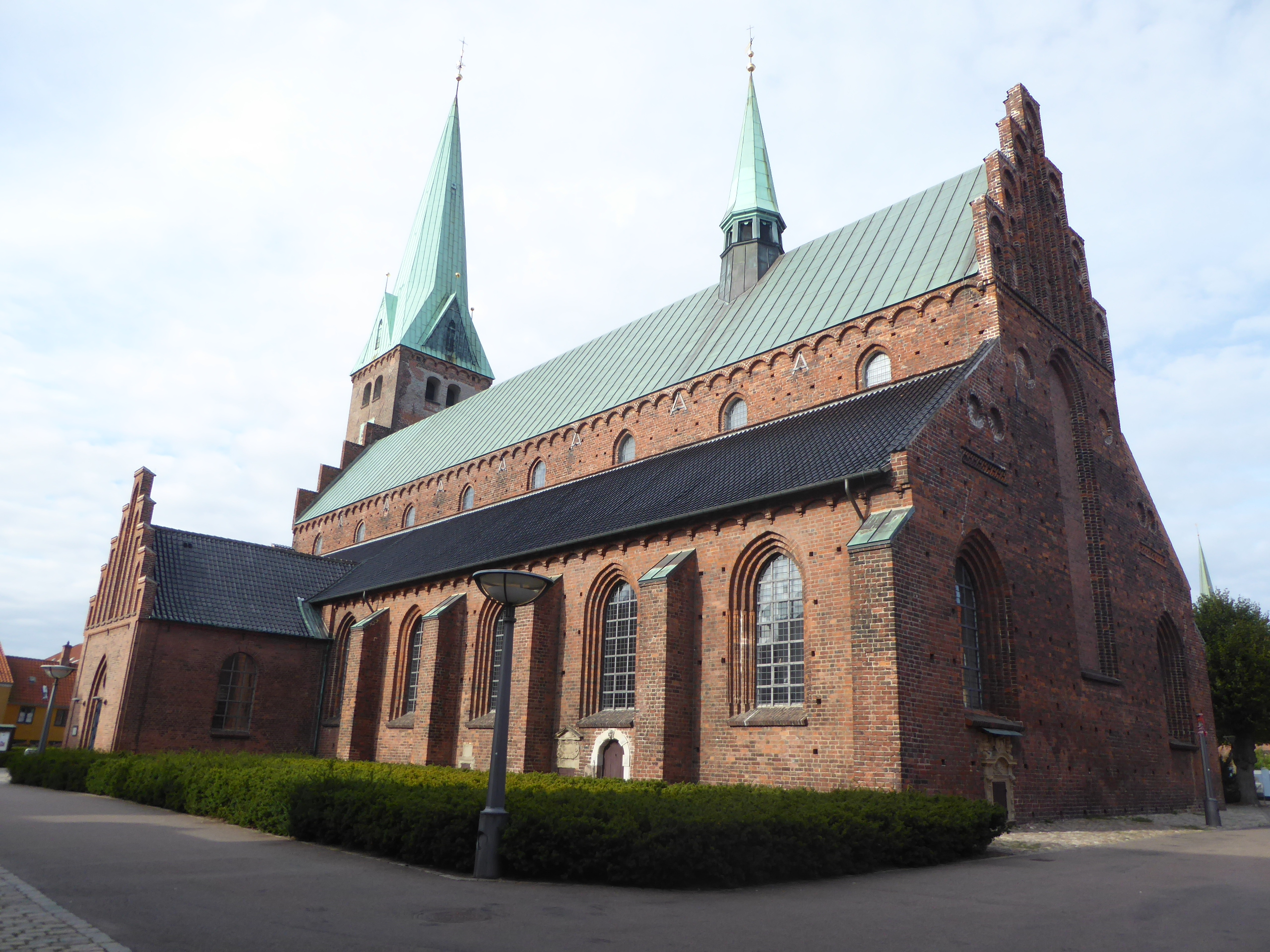 Sankt Olai Kirke, the cathedral of Helsingør in Denmark.